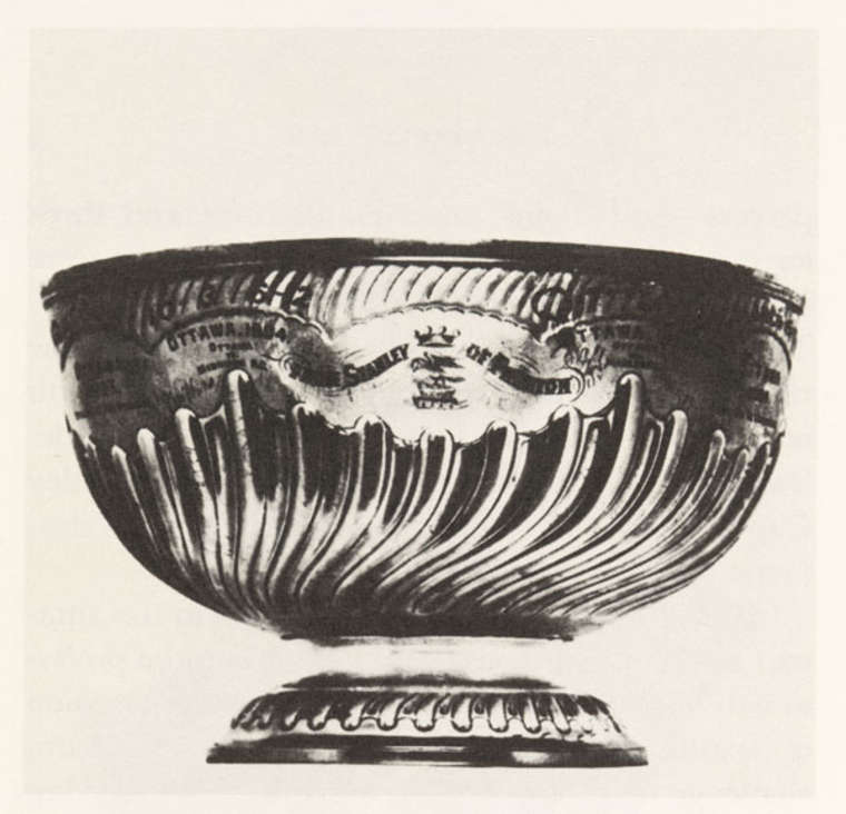 The first Stanley Cup (1893 pic.), donated by Lord Frederick Arthur Stanley of Preston in 1892: a flashy silver salad bowl, which is a minimal prerequisite to deserve the attribution of "trophy". It is the same cup that sits on top of the current trophy.